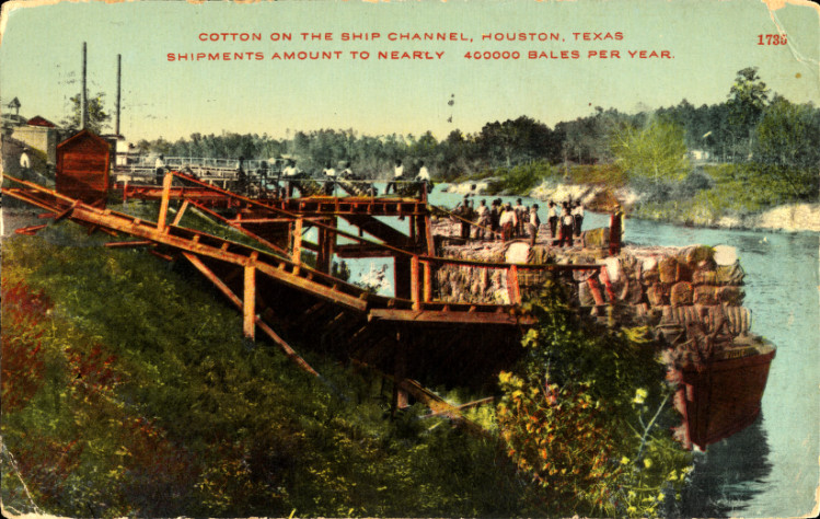 Cotton, Docks, Cargo Vessels, Bayou